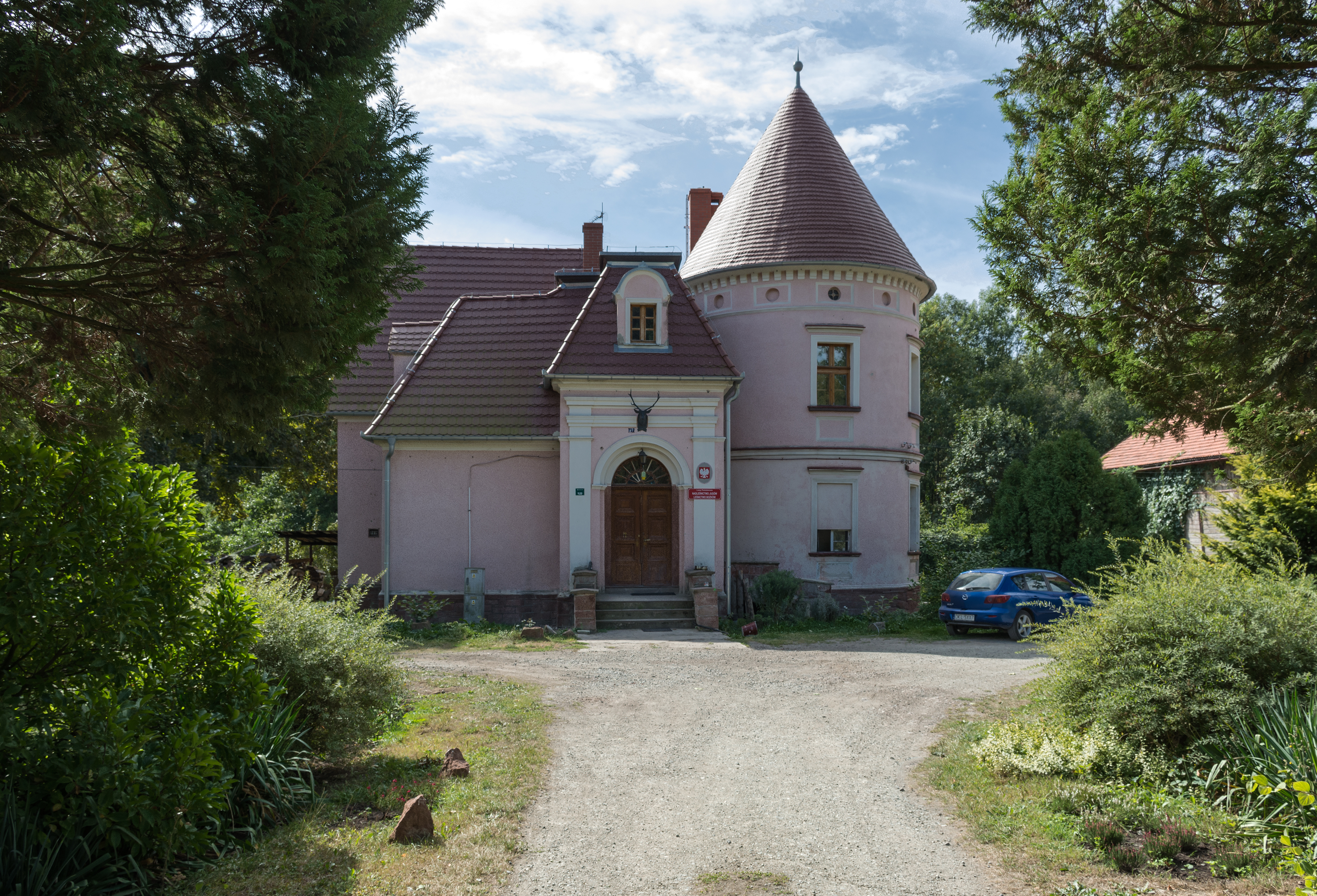 Forester's lodge in Bożków